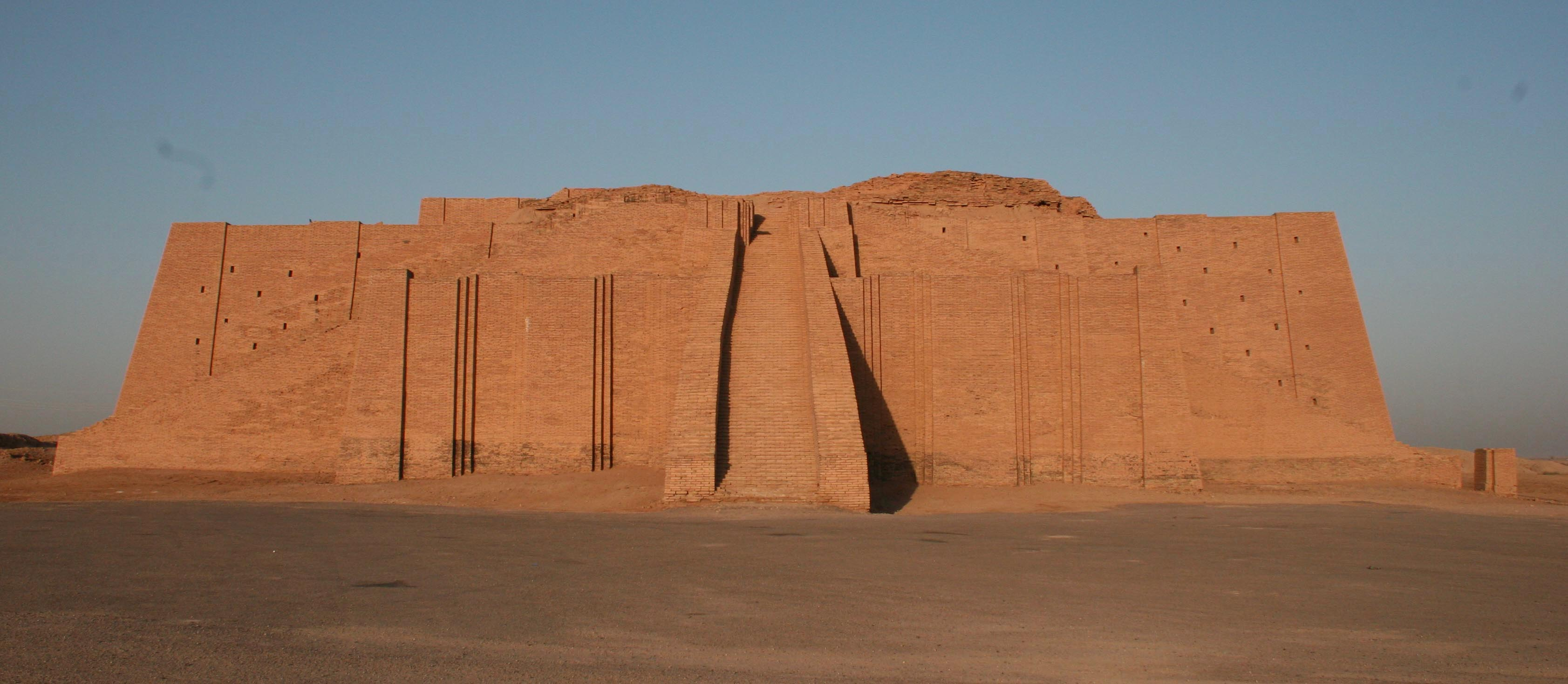 Original photo taken 1 July 2006.